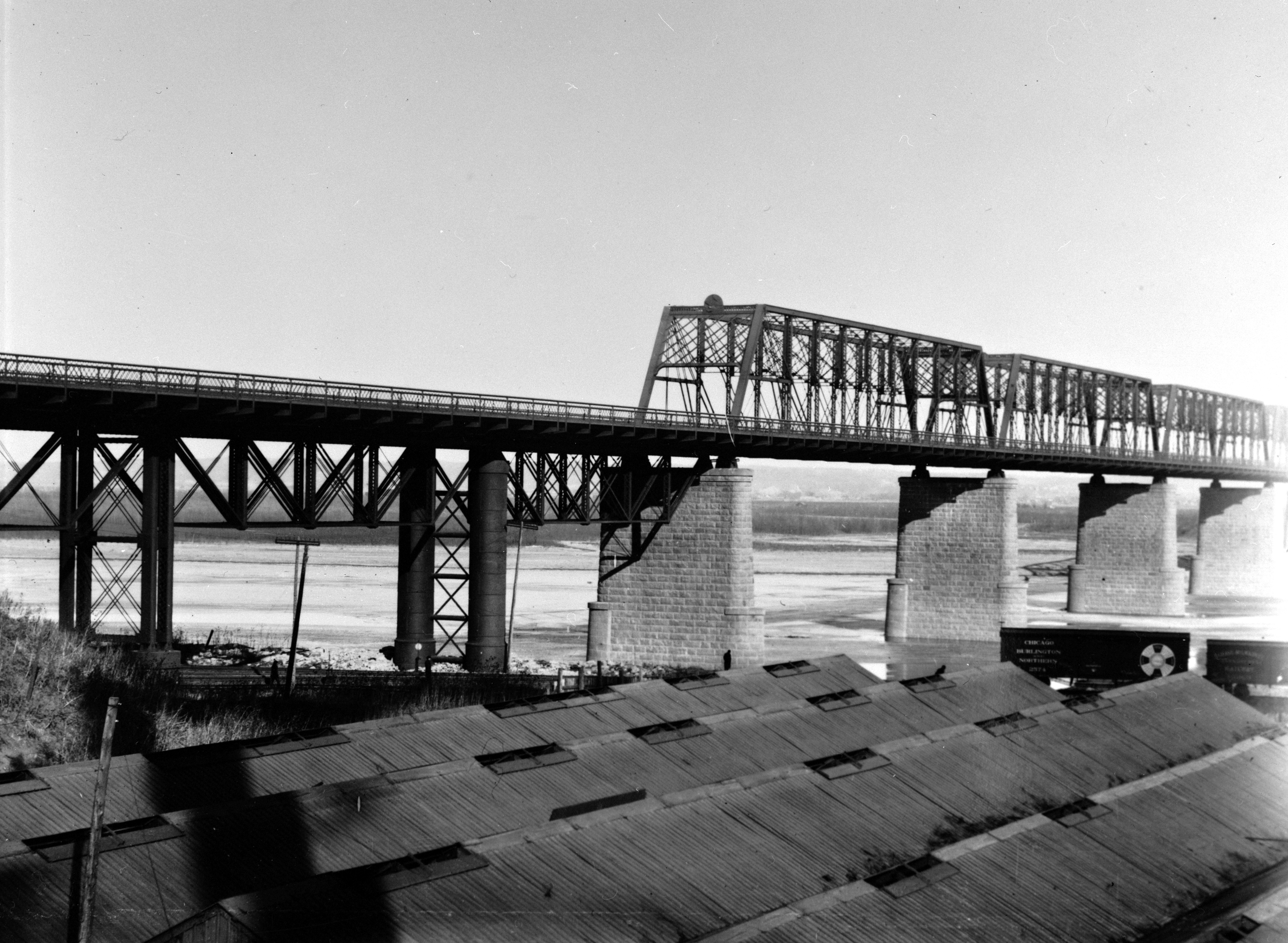 Photocopy of photograph, original negative in the possession of John R. Morison, Peterborough, New Hampshire. Photographer unknown, circa 1887. SOUTH WEB AND WEST PORTAL OF BRIDGE - Omaha Bridge, Spanning Missouri River, Omaha, Douglas County, NE